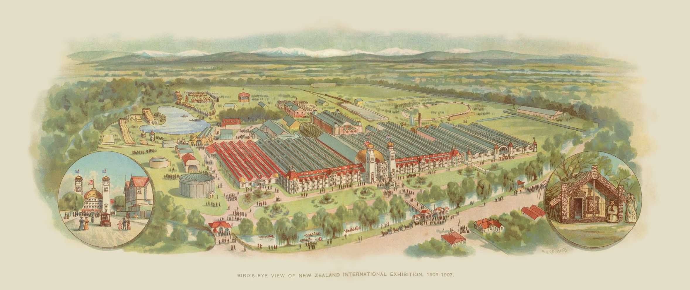 Aerial drawing of the Exhibition Buildings for the 1906 New Zealand International Exhibition, Hagley Park, Christchurch.